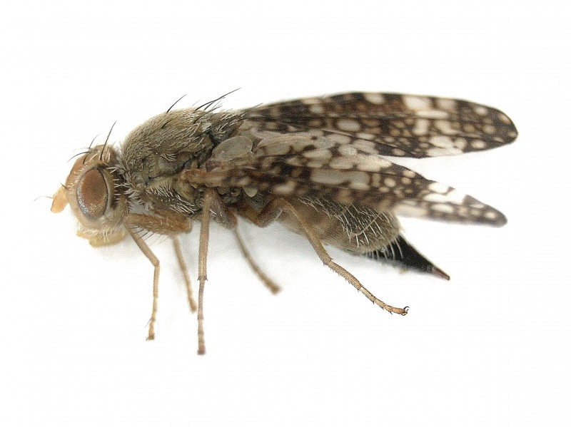 Oxyna parietina (Tephritidae) - (female imago), Arnhem - Schuytgraaf, the Netherlands